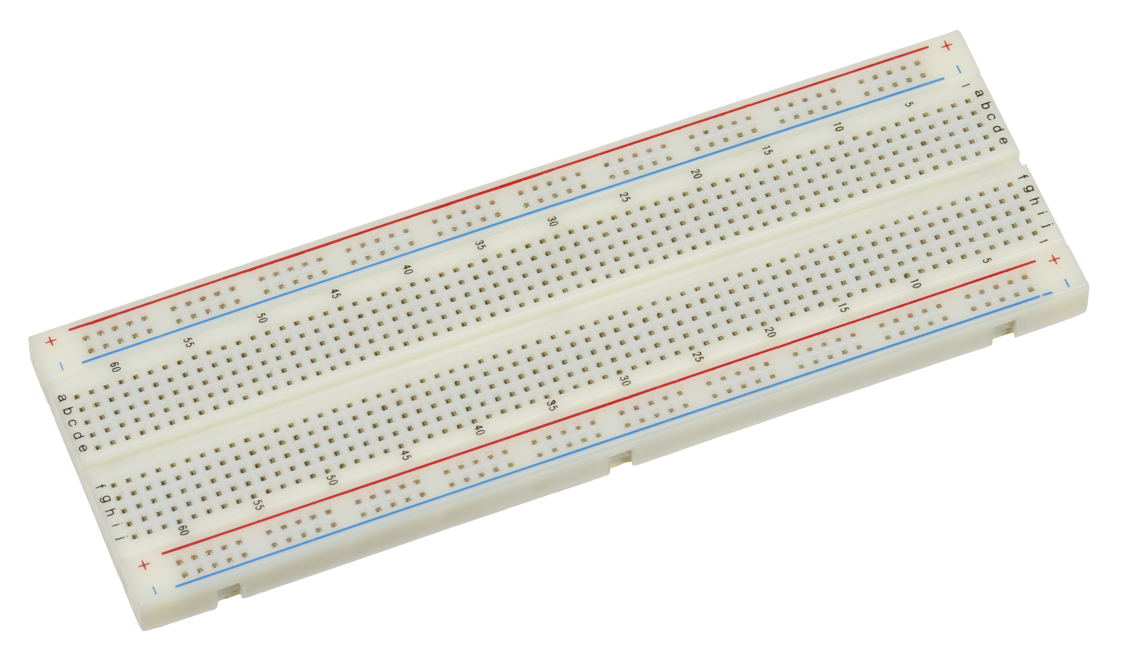 A solderless electronics breadboard, for testing and creating your own electronic circuits.